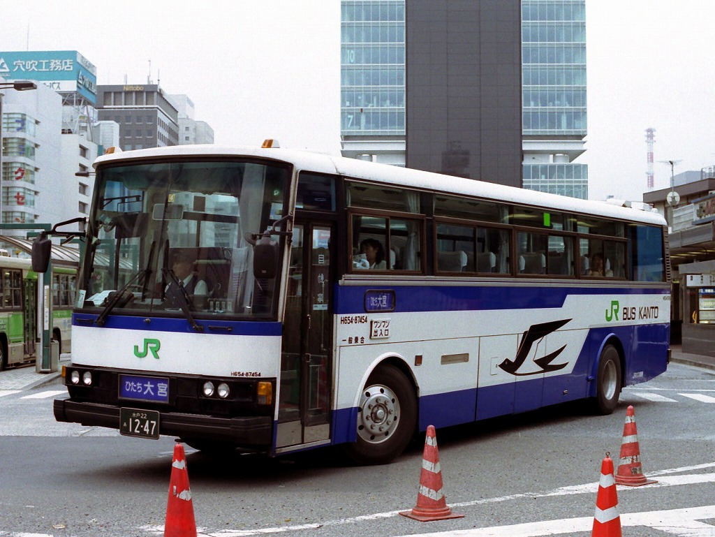 JR bus Kanto Mitsubishi Fuso Aero bus (FHI R3 body,P-MS715S)Highwaybus "Shinjuku,Tokyo-HitachiOmiya"